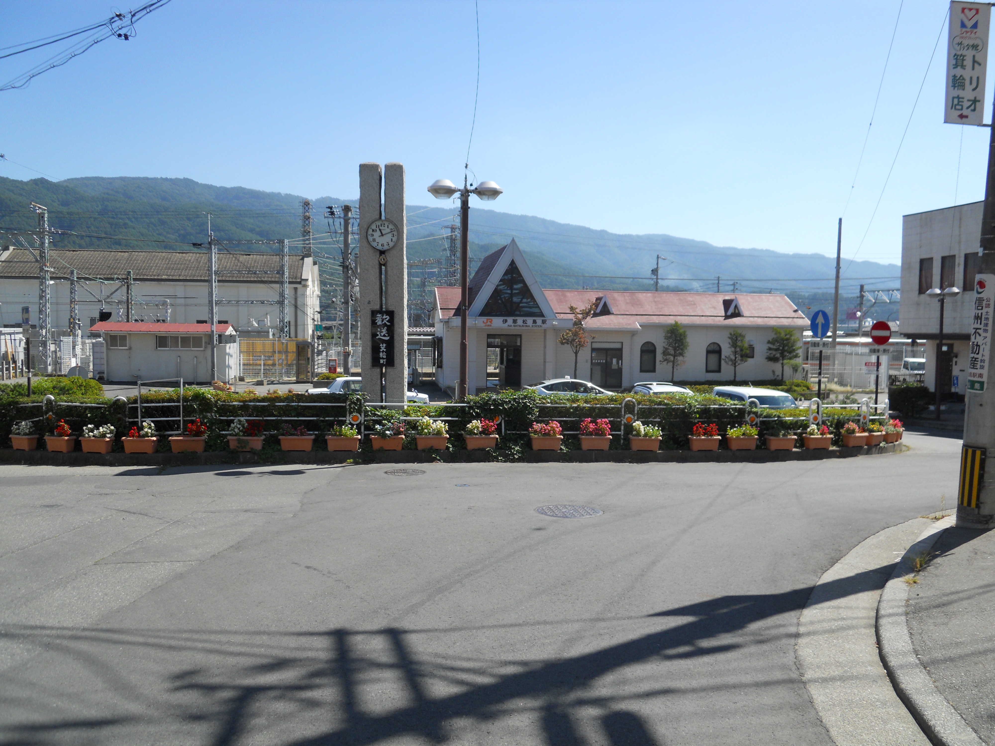 Ina-Matsushima Station